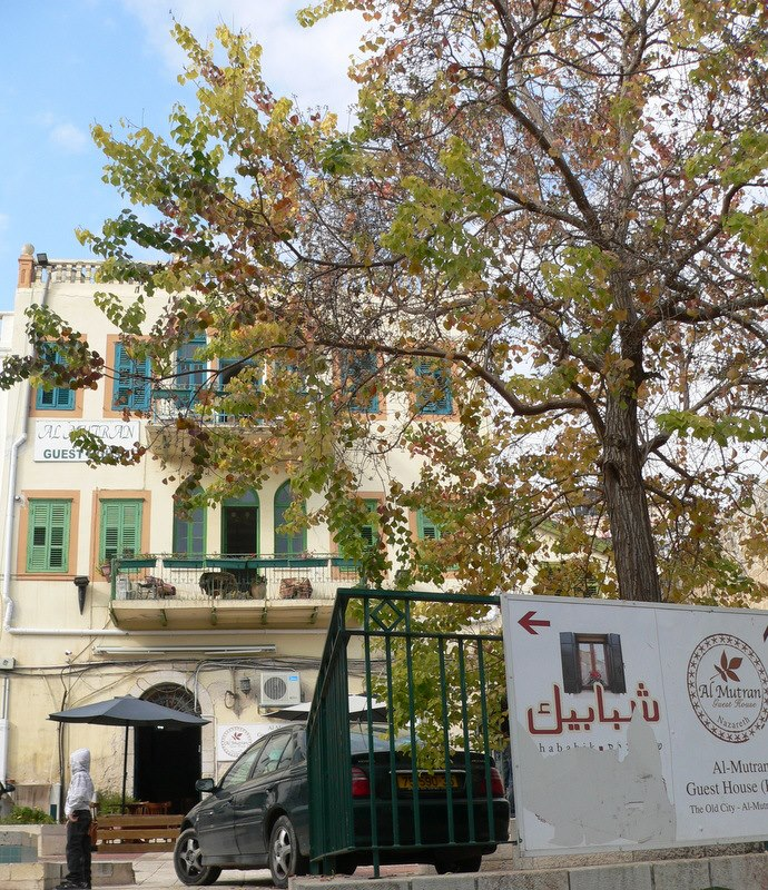 Tourism in Israel